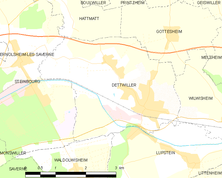 Map of French municipality